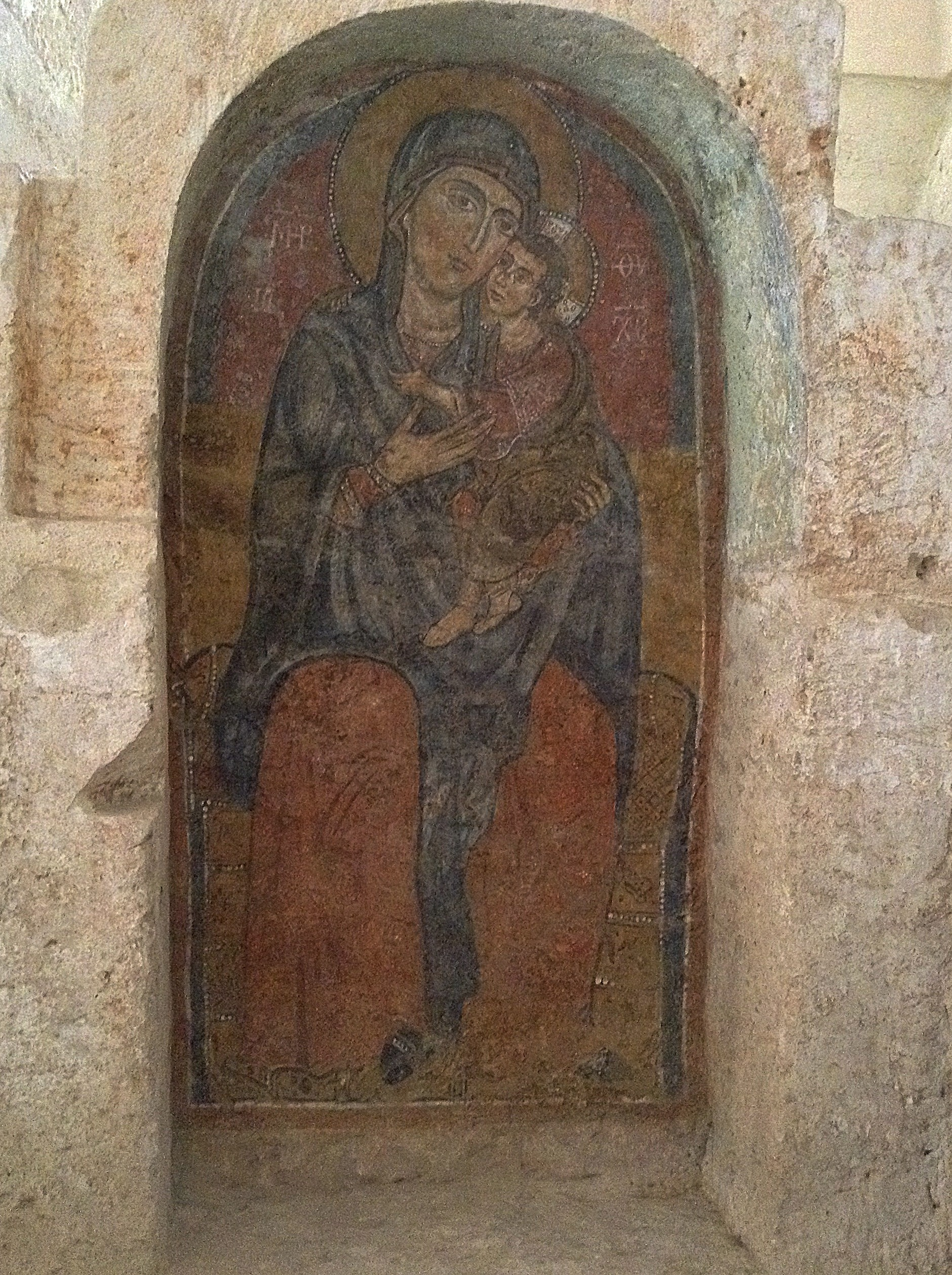 Virgin and Child from the 13th century